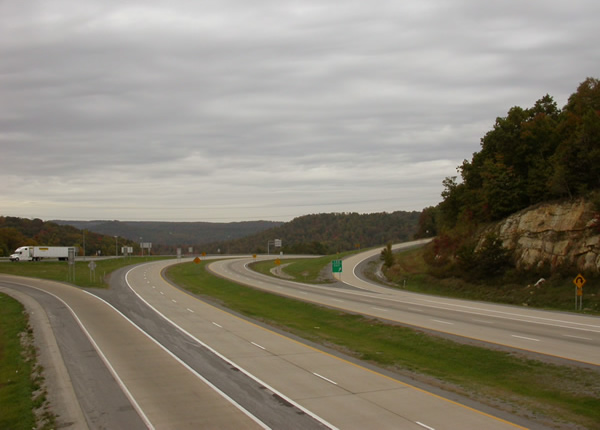 Interstate 64 at Sandstone Mountain in Raleigh County. Behind me is the 7% grade.